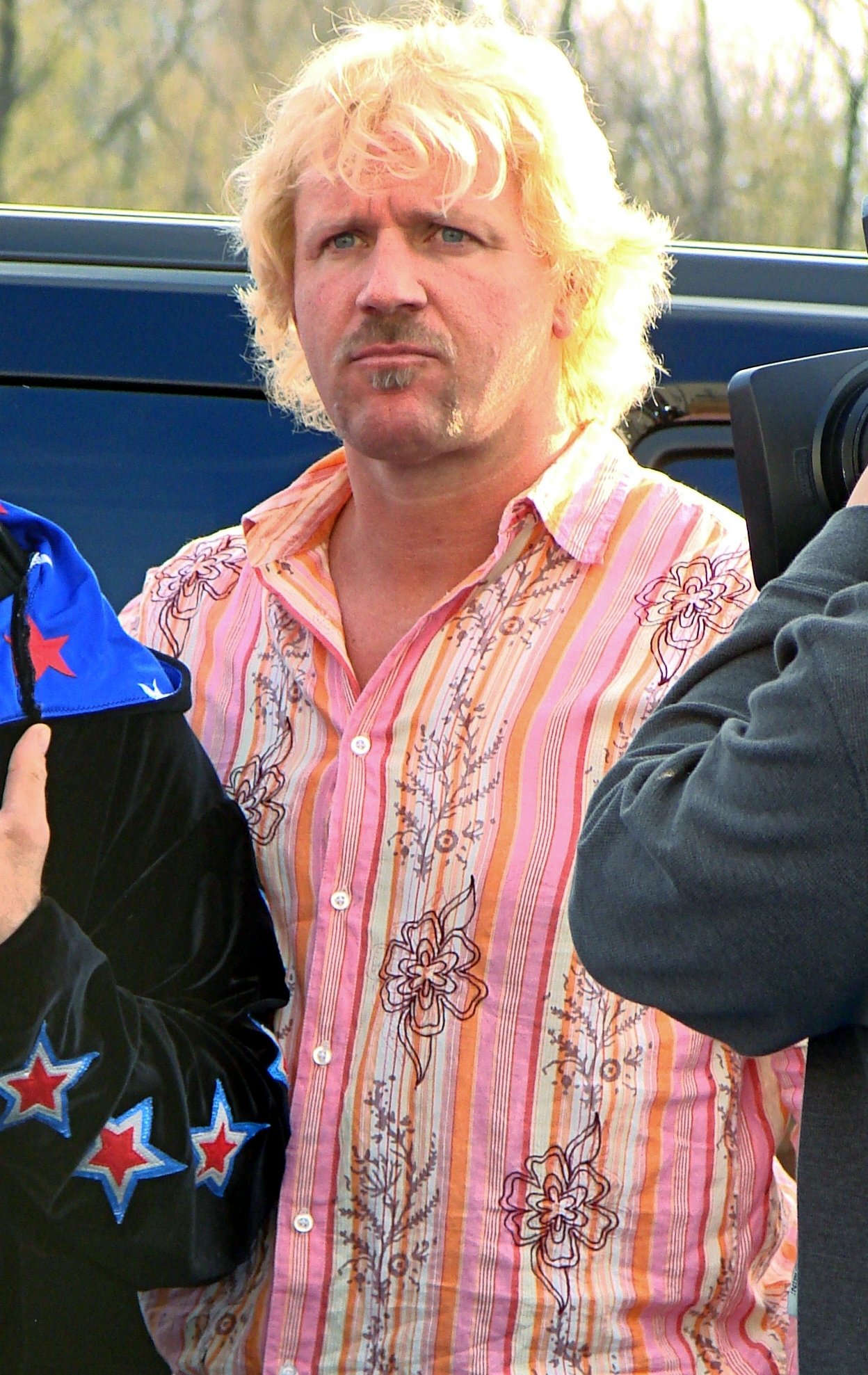 Jeff Jarrett at the Black and Blue Carpet Show outside of the Family Arena for TNA Lockdown#2007 on April 15en:2007.